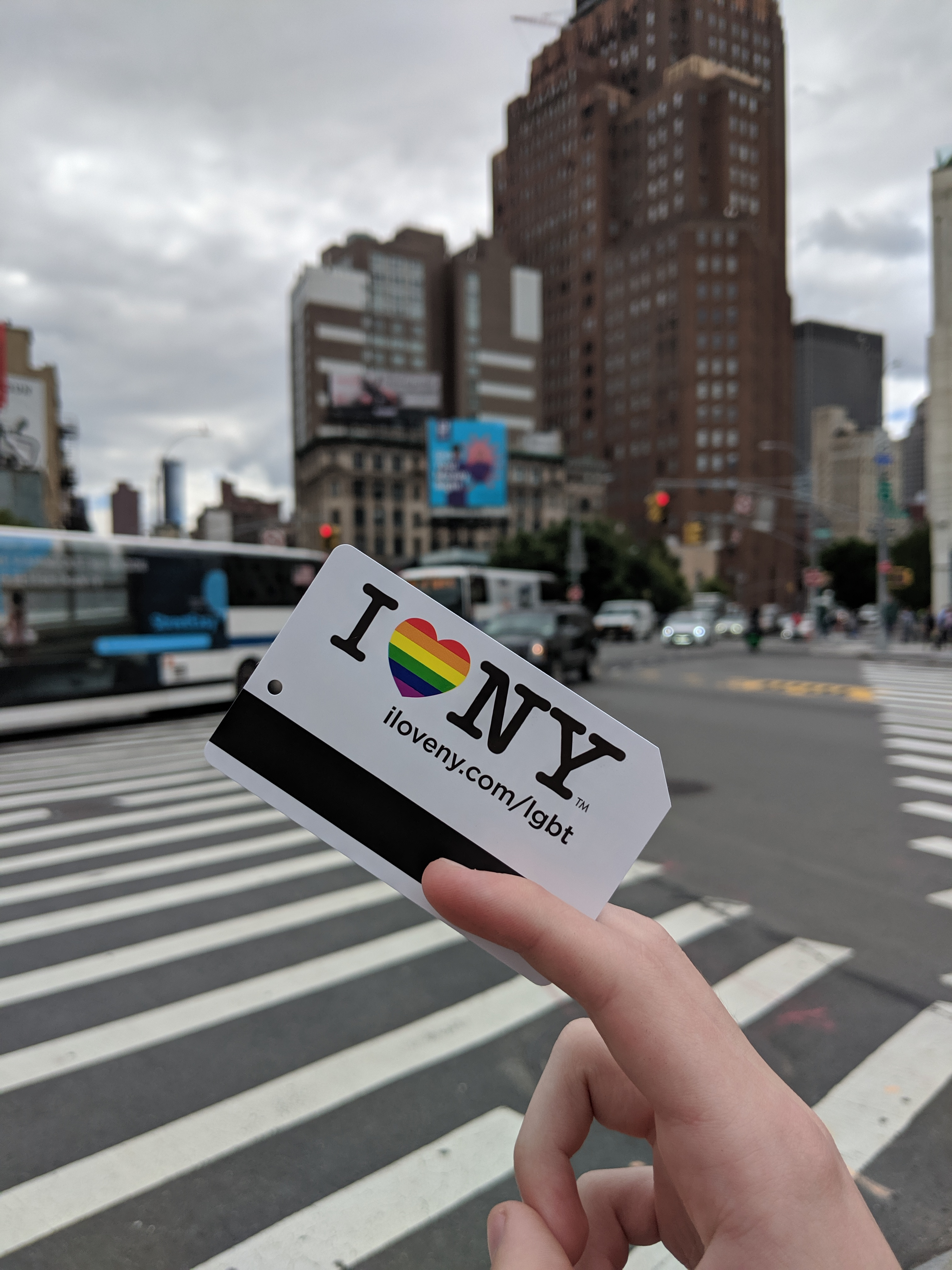 A special MTA & New York City Subway MetroCard for "Pride Month" in June 2019.